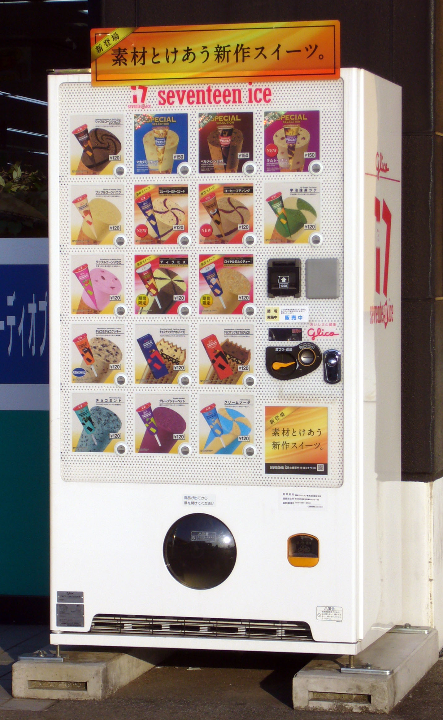 Seventeen Ice vending machine (Japanese ice-cream vendor)